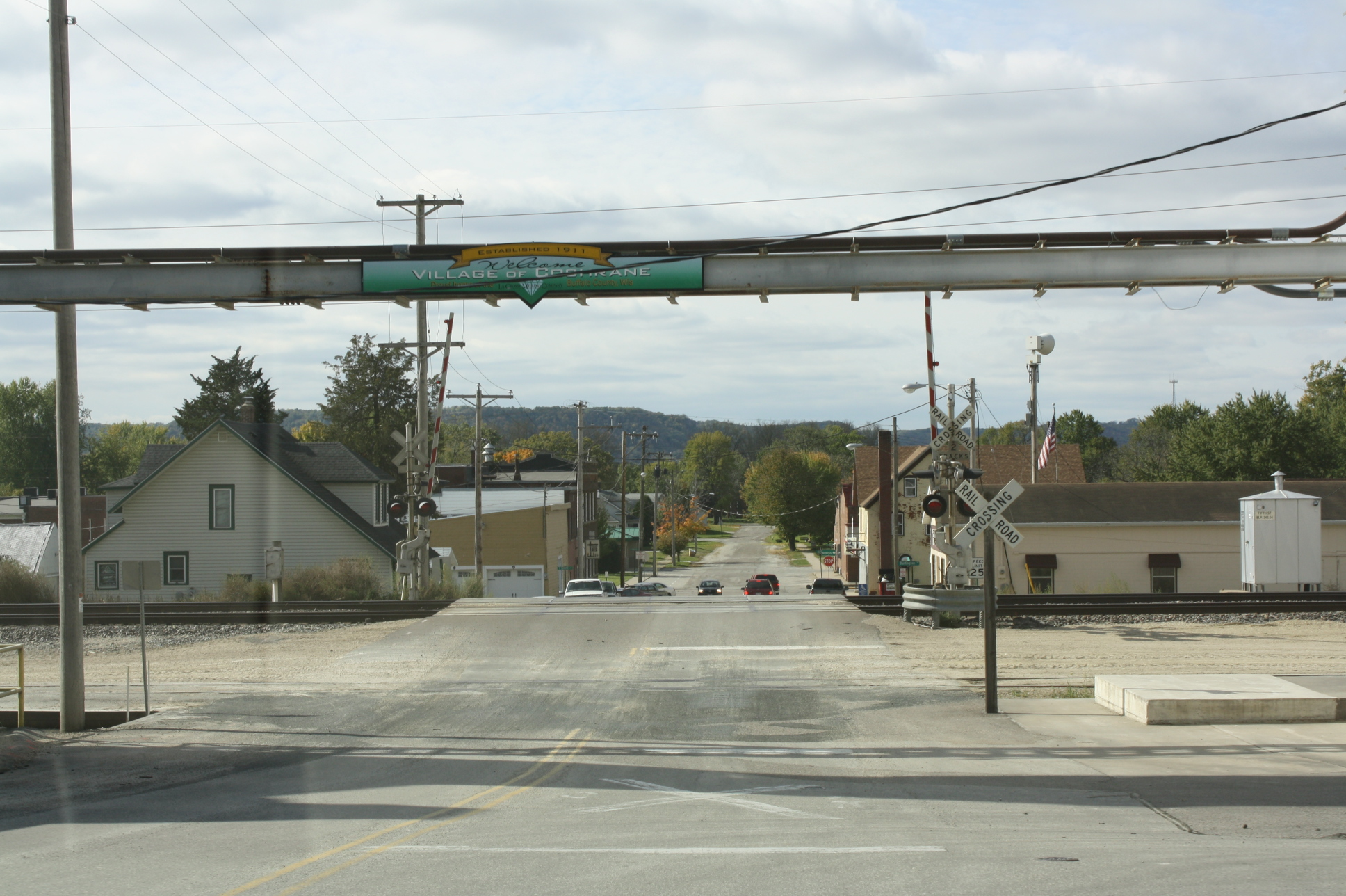 Looking west at the city welcome sign and downtown Cochrane, Wisconsin just off Wisconsin Highway 35.